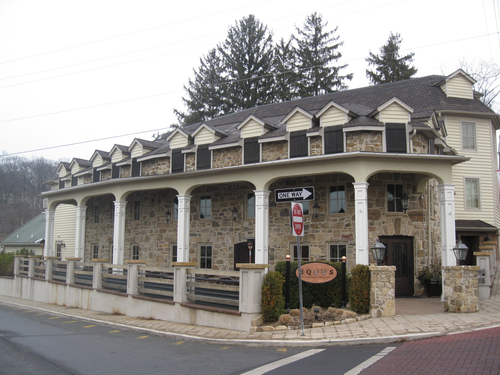 An elegant restaurant in Bernardsville, NJ